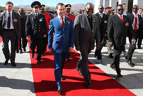 WINDHOEK. Ceremonial meeting between President of Russia and President of the Republic of Namibia Hifikepunye Pohamba.